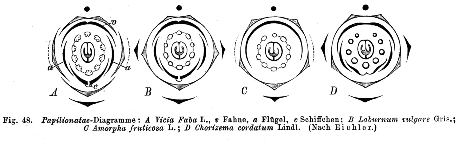 Illustration from book